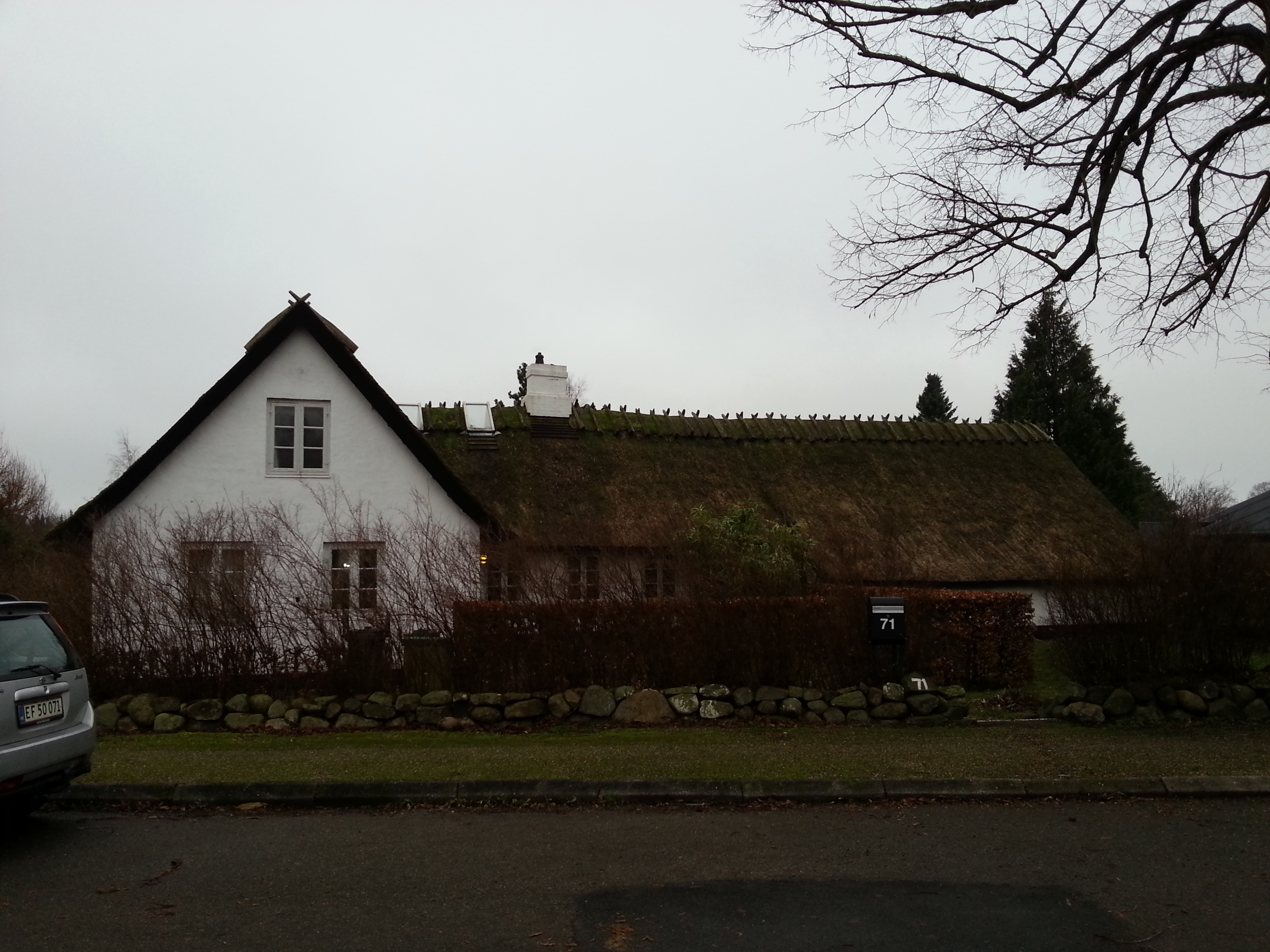 Old farm in Mørdrup (Espergærde), Denmark 1